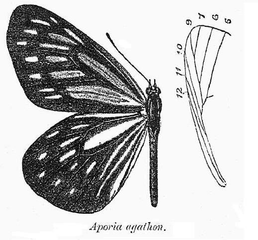 Great Blackvein